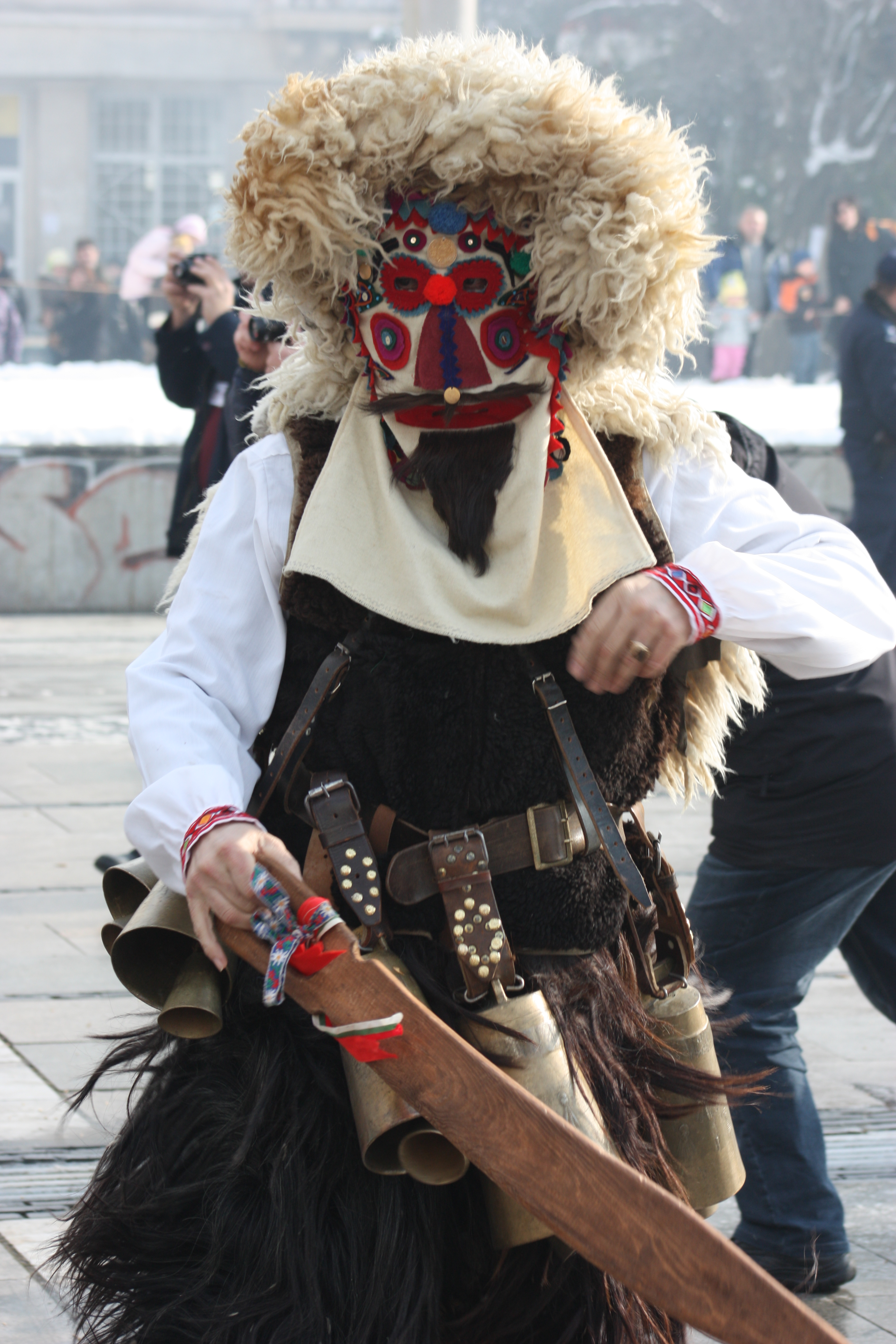 A kuker dancer makes his performance at the XIX Kukers' Festival in Pernik, Bulgaria